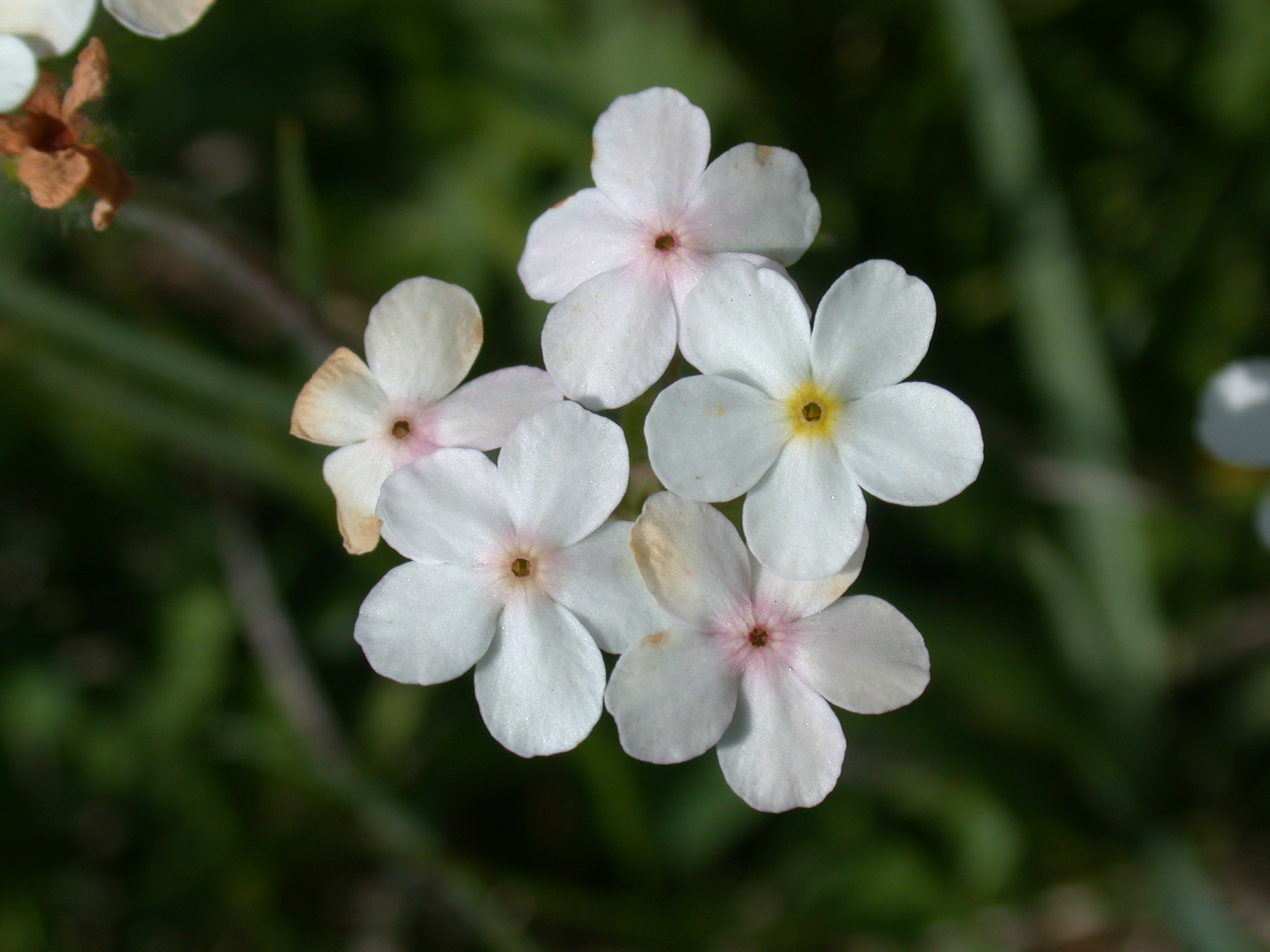 Androsace chamaejasme (Primulaceae); Gasterntal, Canton Bern, Switzerland